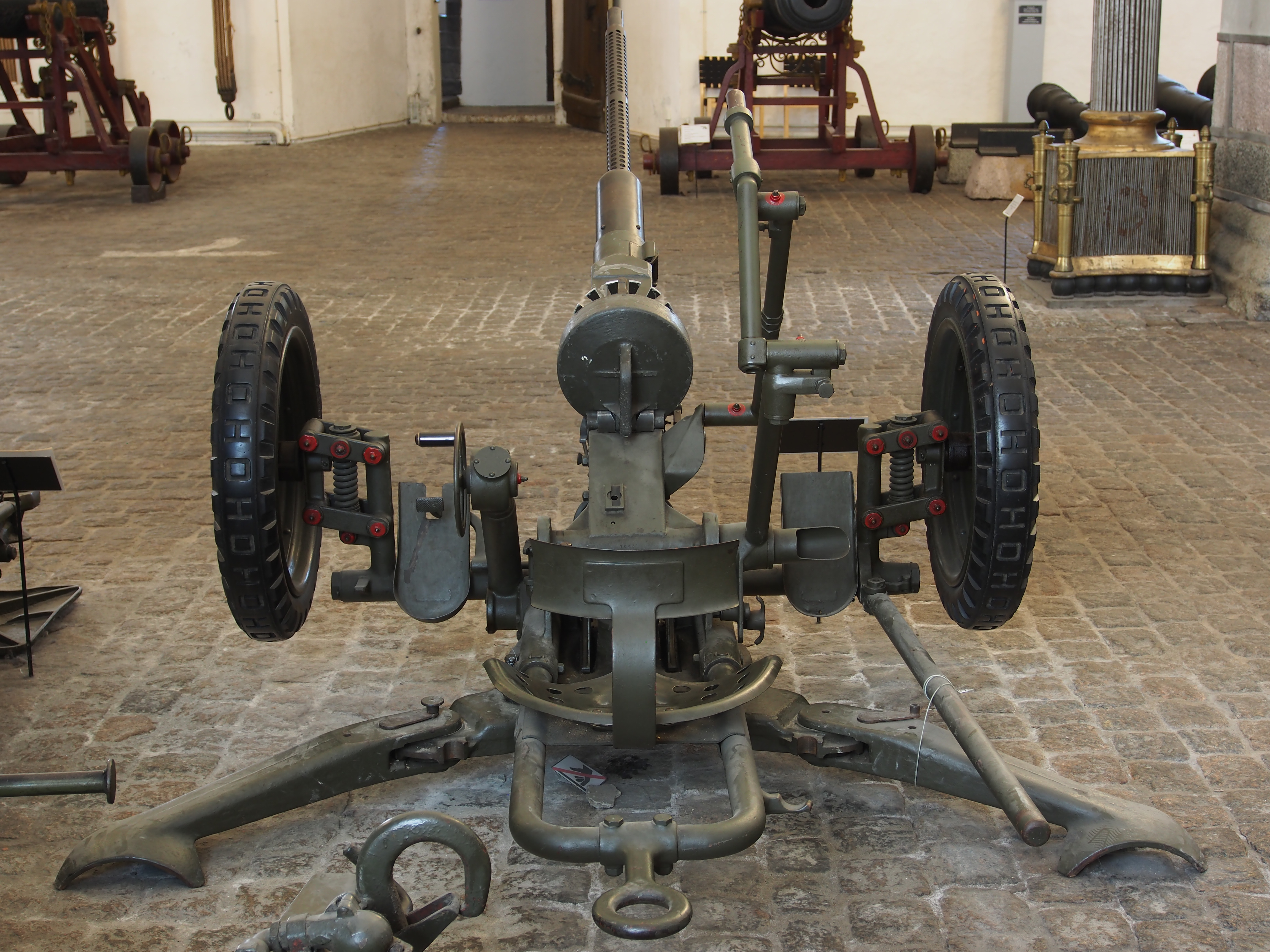 Photographed at the Royal Danish Arsenal Museum (Copenhagen)